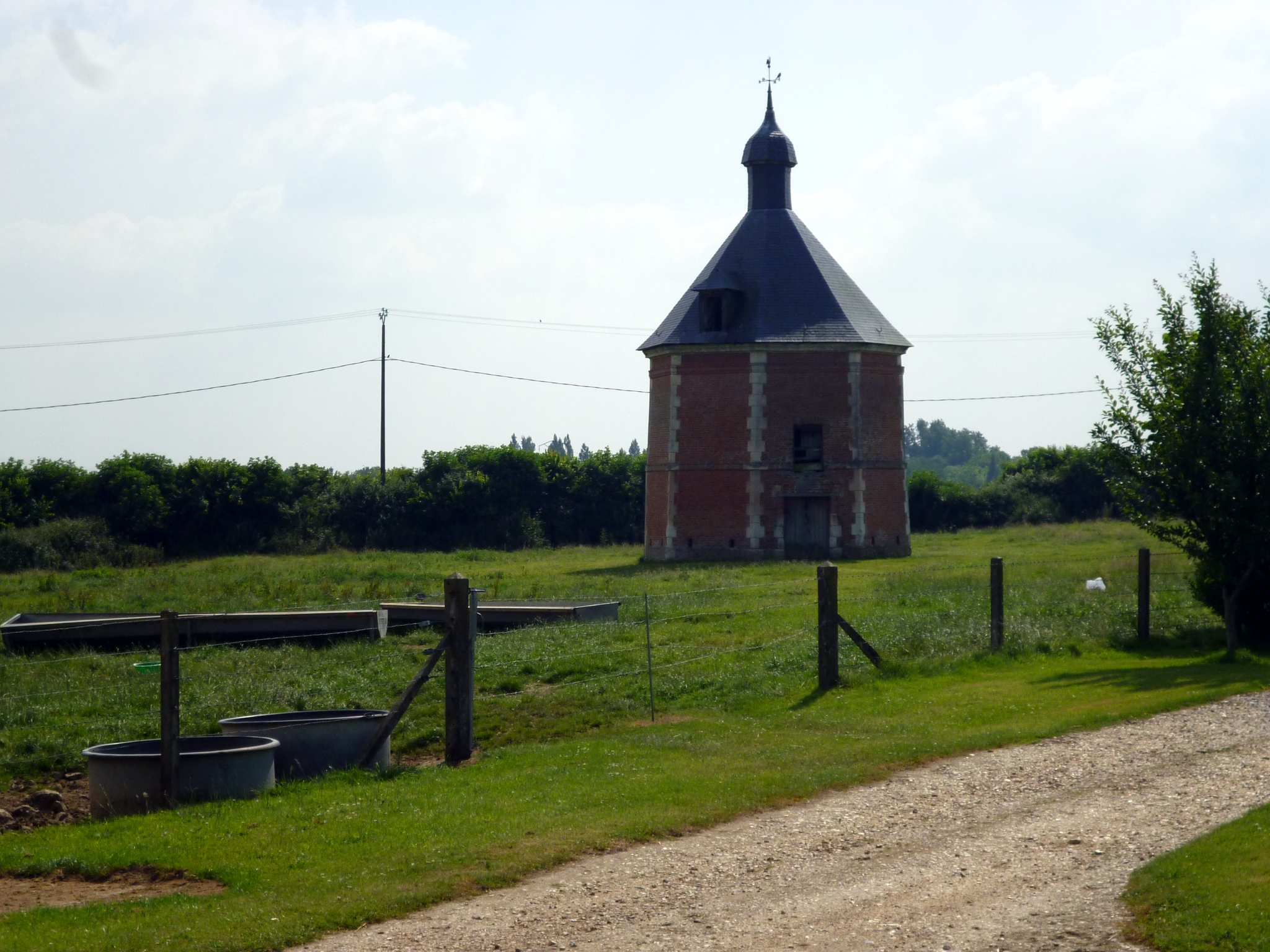 Pigeonry of Le Bois Louvet in Saint-Jean-de-la-Léqueraye (Eure, France).